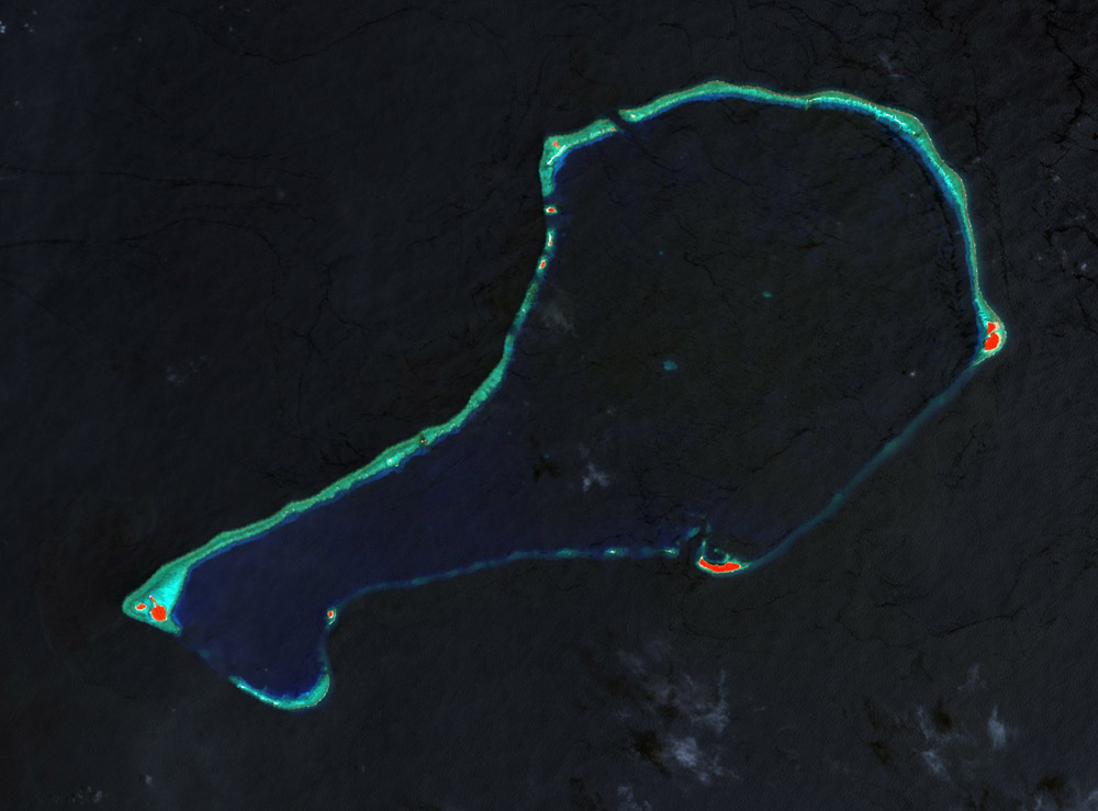 Landsat 7 image of Murilo Atoll, Chuuk State, Federated States of Micronesia